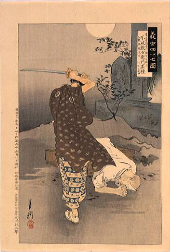 Ronin are masterless samurai. Chushingura is the true story of 47 samurai who became masterless in 1701, after their lord had been forced to commit ritual suicide (seppuku) for assaulting a court official who had insulted him. They avenged him by killing the court official after patiently planning for over a year. They were themselves then forced to commit seppuku.